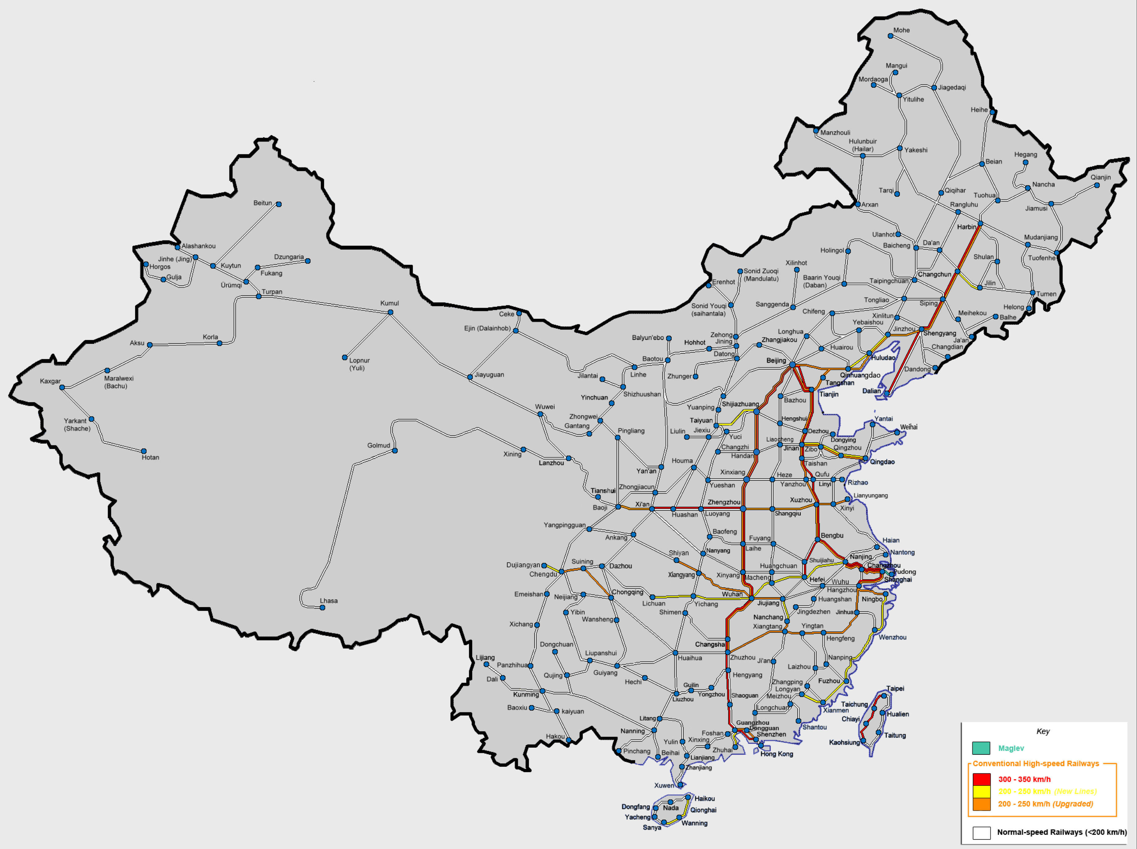 The highspeed railway network (IN OPERATION) in mainland China and Taiwan. The map is based on the data as of 01 January 2013.